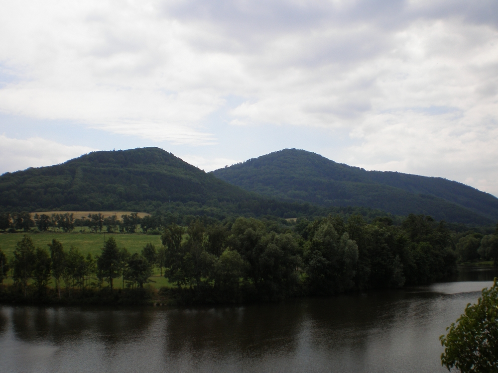 Klášterec nad Ohří, Ohře River